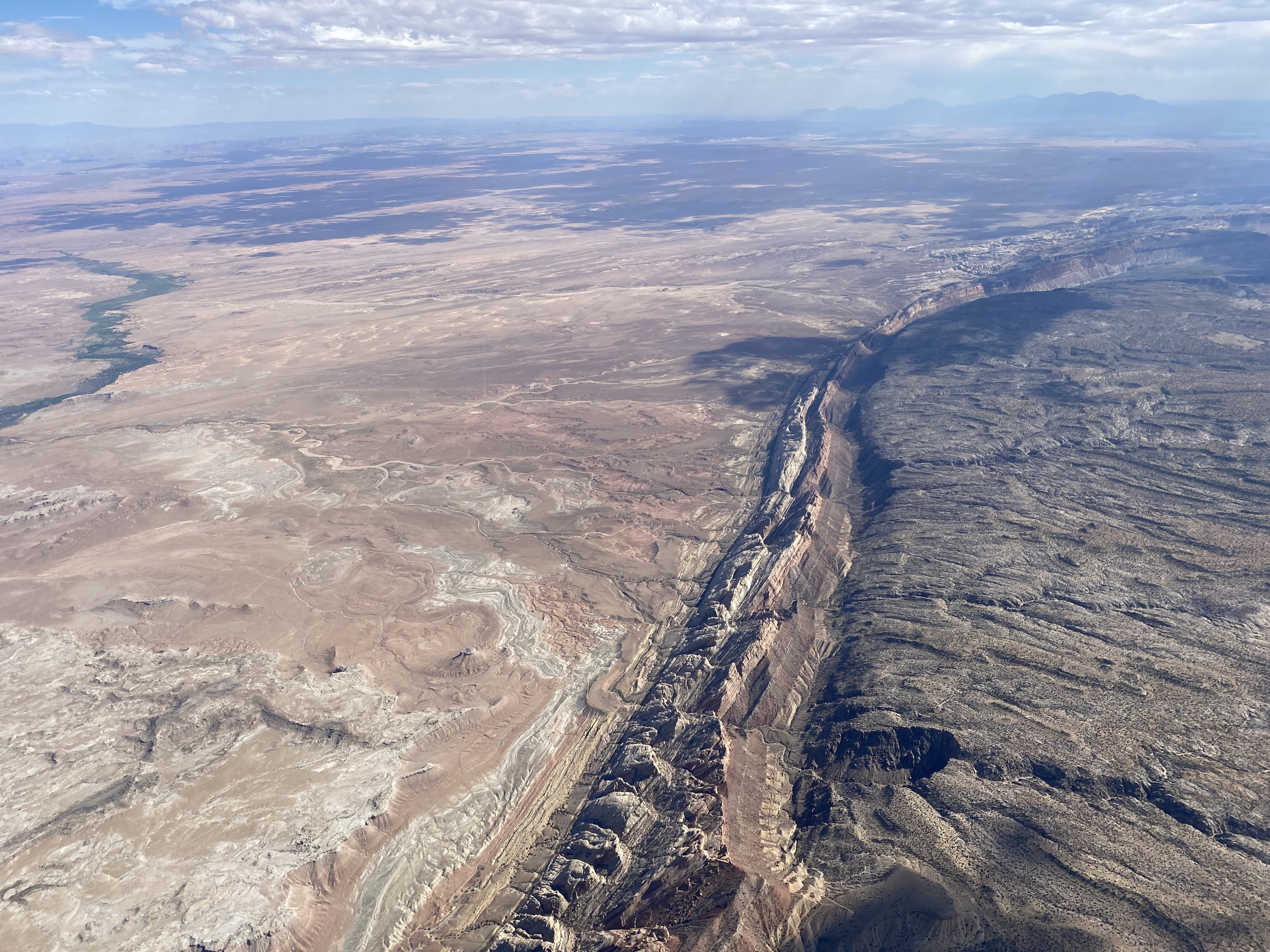 This picture was taken from a paraglider flying over the San Rafael Swell